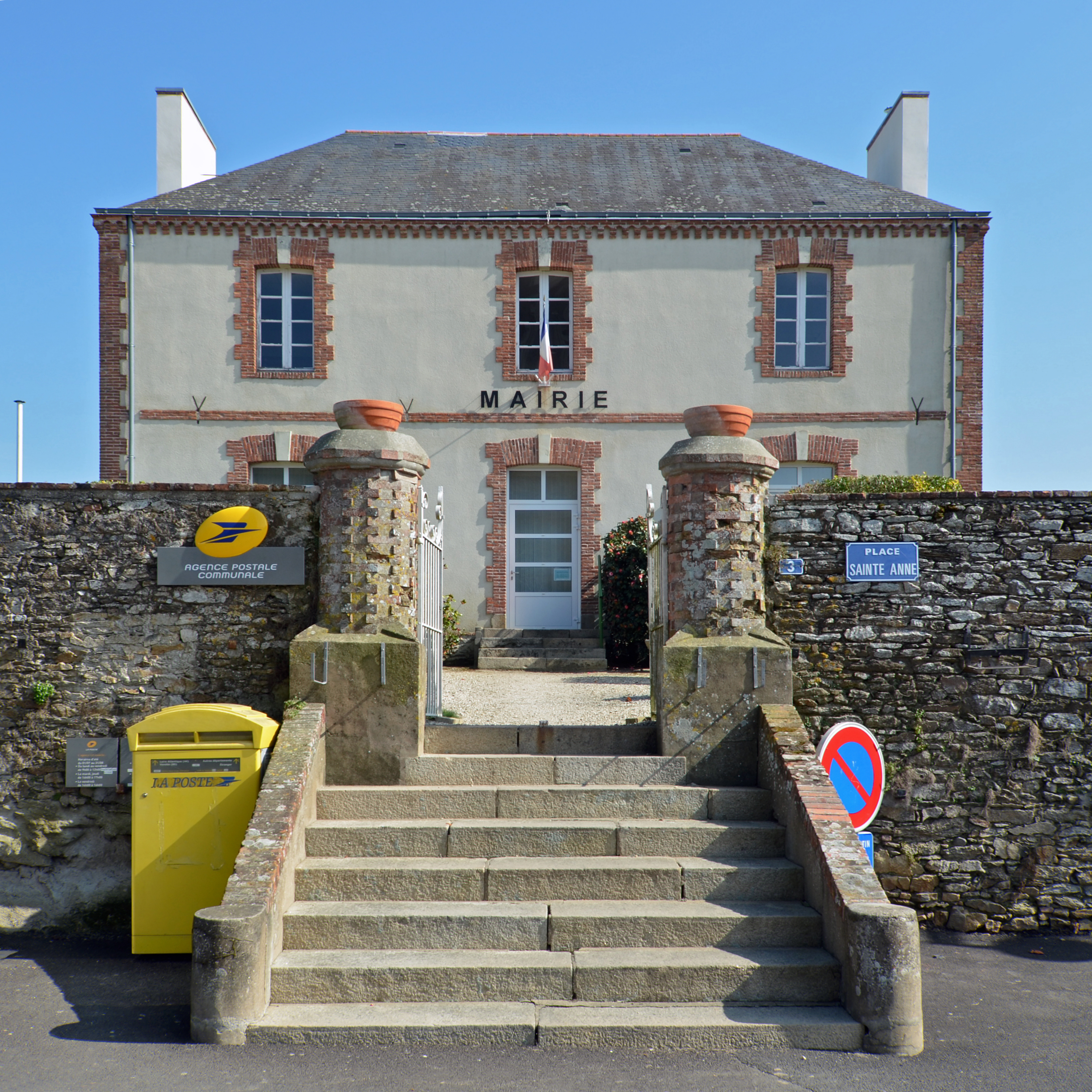 City hall of Vue (Loire-Atlantique, France).